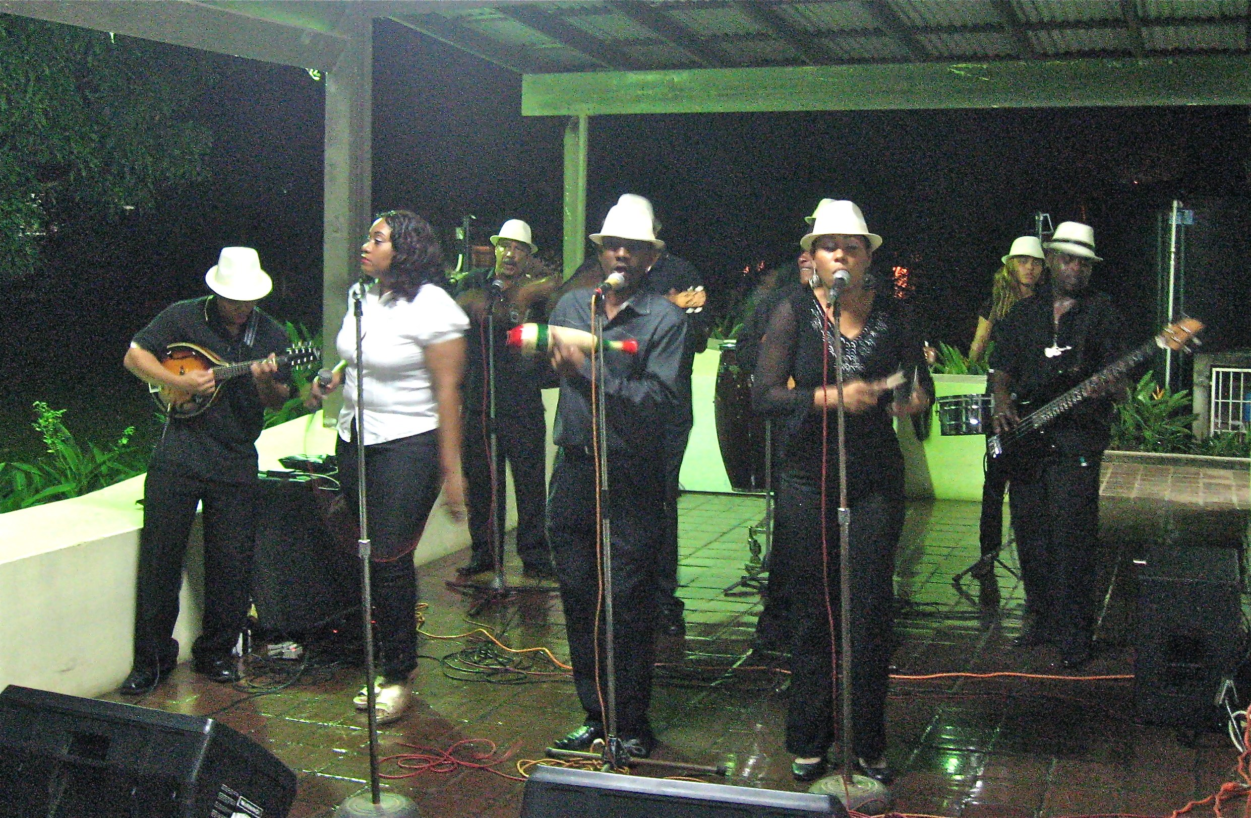 Group of musicians performing parang music.